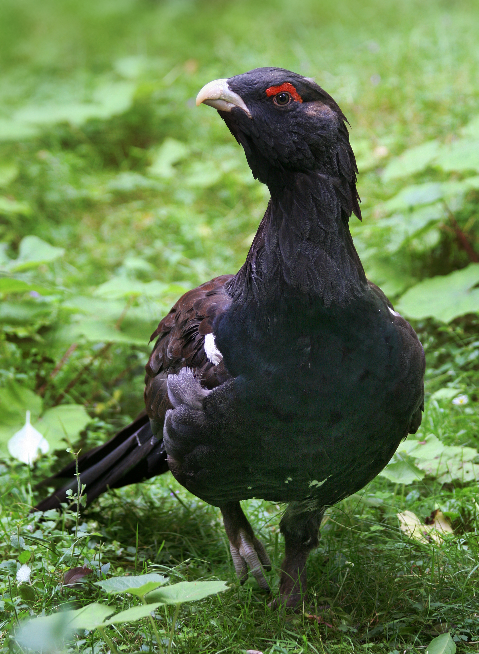 The Capercaillie Tetrao urogallus, also known more specifically Western Capercaillie, is the largest member of the grouse family, reaching over 100 cm in length and 4 kg in weight. Found across northern Europe and Asia, it is renowned for its mating display. Wildpark Poing, Munich, Germany.